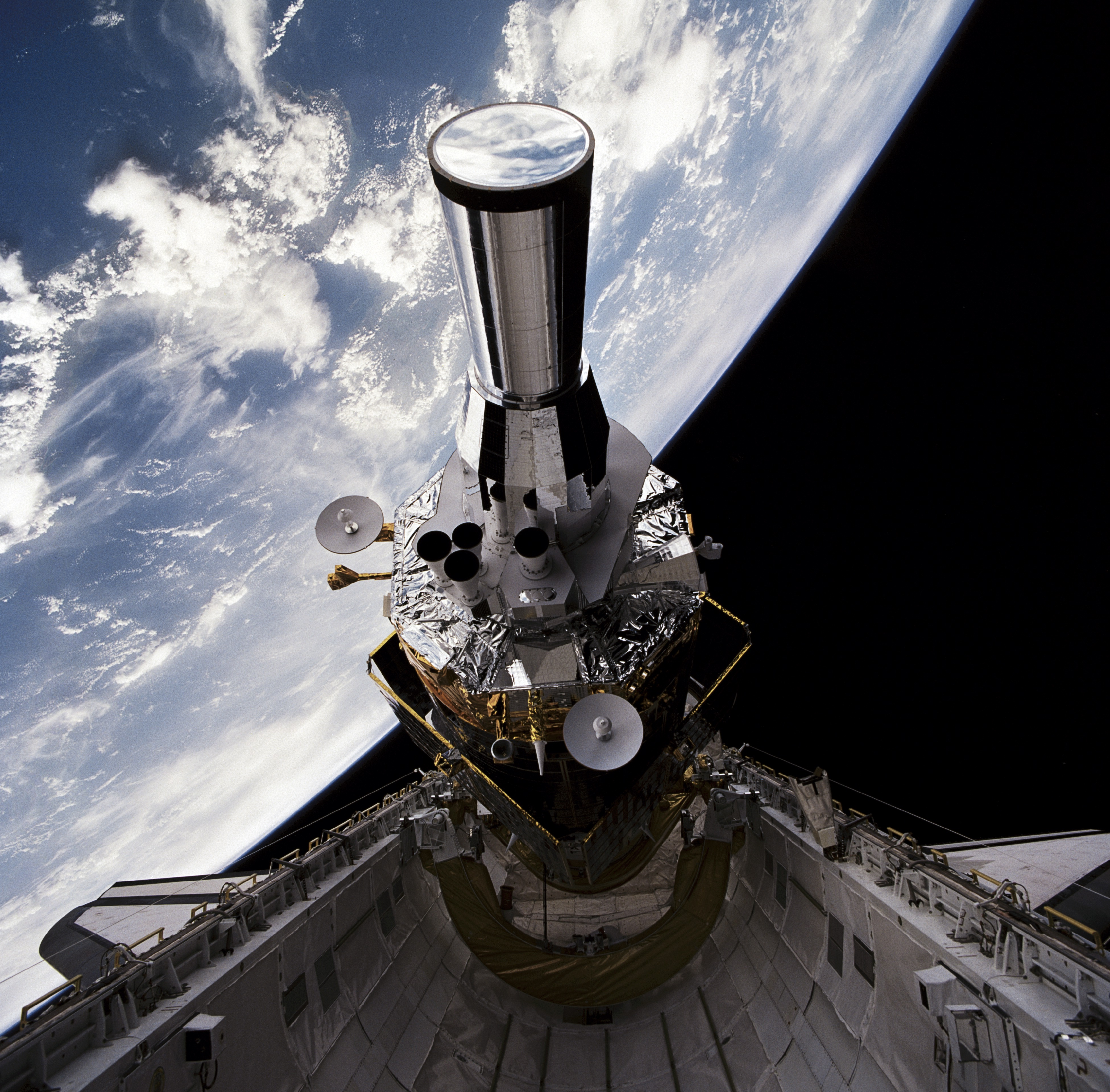 STS-44 Defense Support Program (DSP) / Inertial Upper Stage (IUS) spacecraft, with forward airborne support equipment (ASE) payload retention latch actuator released (foreground), is raised to a 29 degree predeployment position by the ASE aft frame tilt actuator (AFTA) table in the payload bay (PLB) of Atlantis, Orbiter Vehicle (OV) 104. Underneath the DSP / IUS combination, the umbilical boom is connected to the IUS. DSP components include Infrared (IR) sensor (top), AR I, SHF Antenna, EHF Antenna, Link 2 High-Gain Antenna, star sensor, and stowed solar paddles (box-like structure around the base). The Earth's limb and the blackness of space create the backdrop for this deployment scene.